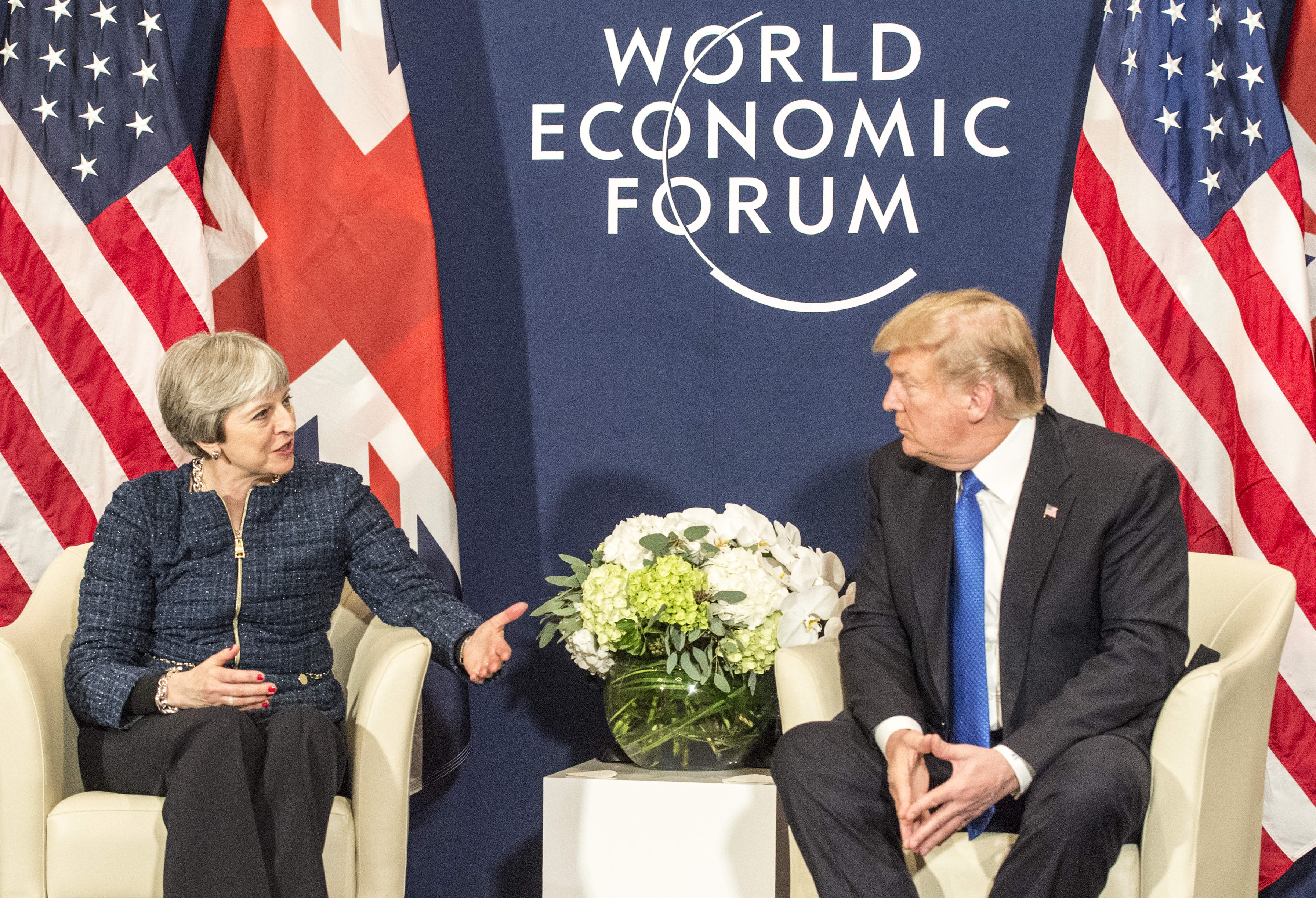 Prime Minister Theresa May met with President Trump while at the World Economic Forum in Davos.